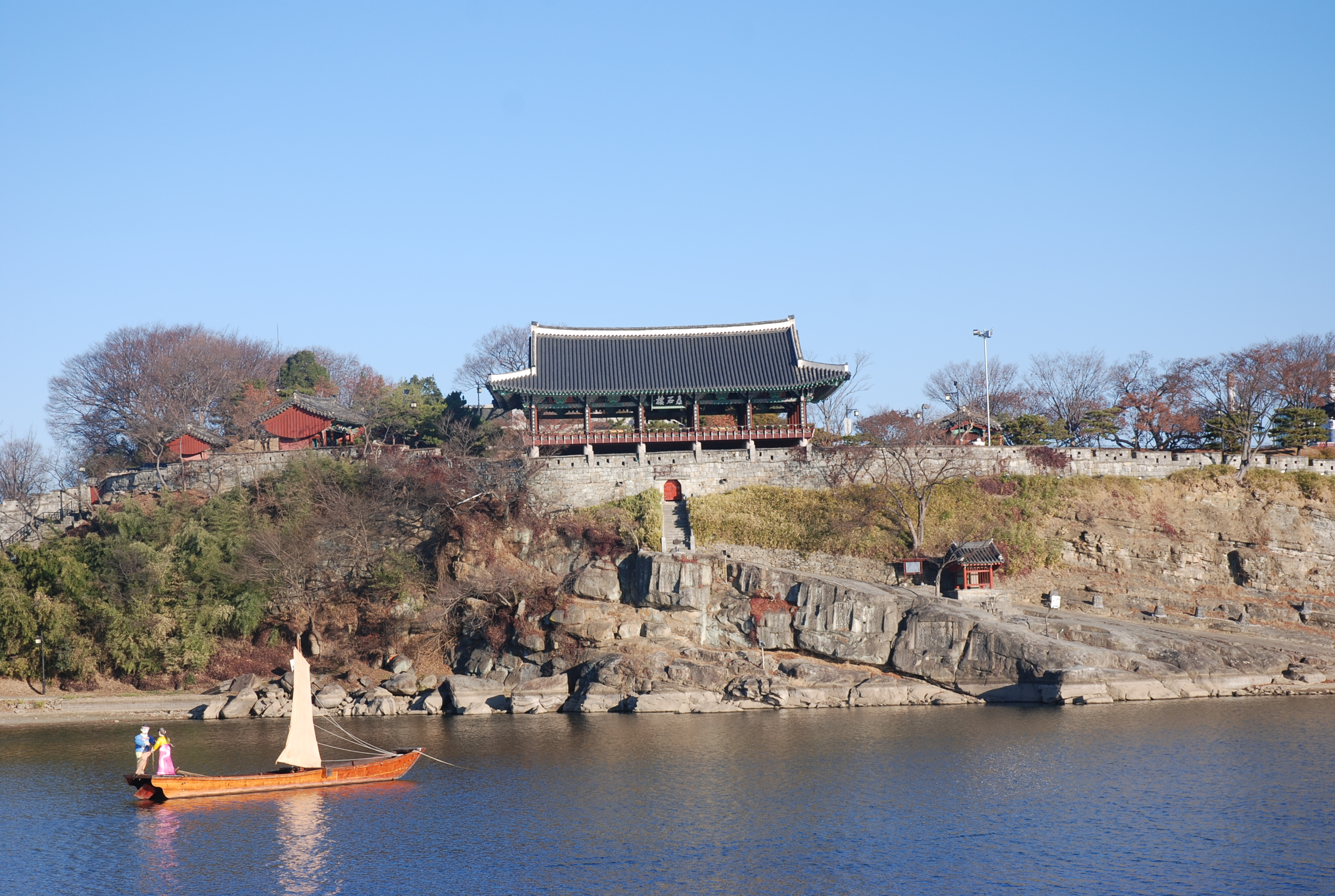 Choksuk Pavillion in the Jinju Castle through Nam river